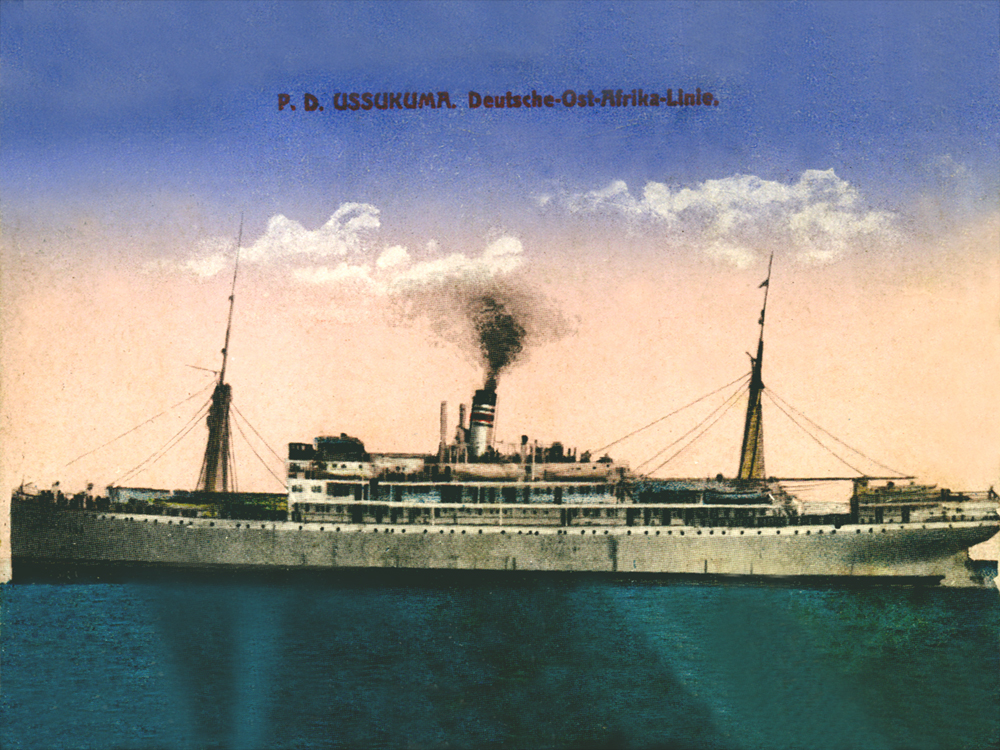 German passenger ship Ussukuma 1921